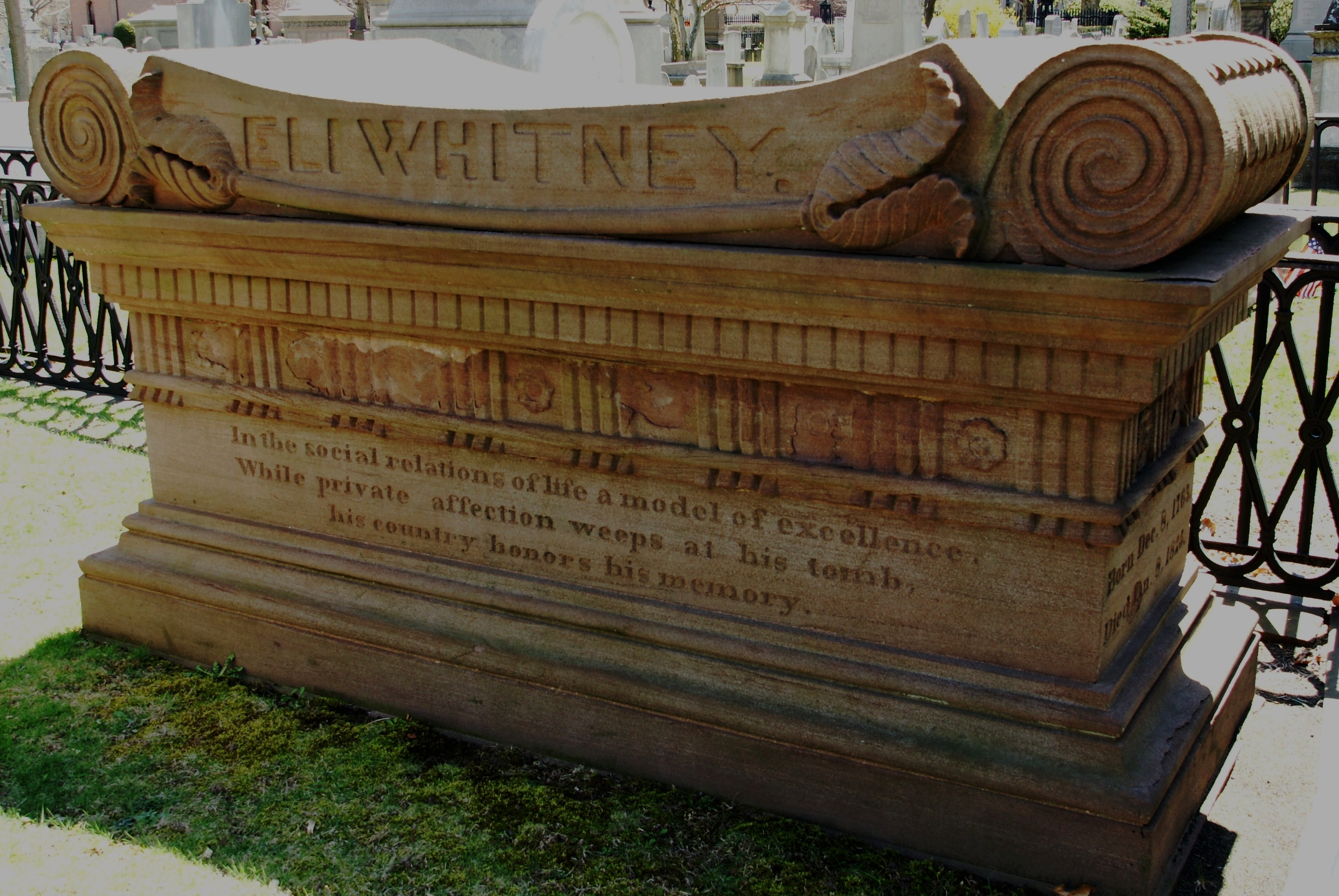 North side of monument at grave of Eli Whitney in Grove Street Cemetery, New Haven, Connecticut. The stone is at the southwest corner of a fenced-off family plot in the cemetery. Inscription reads: "ELI WHITNEY. / In the social relations of life a model of excellence. / While private affection weeps at his tomb, / his country honors his memory."